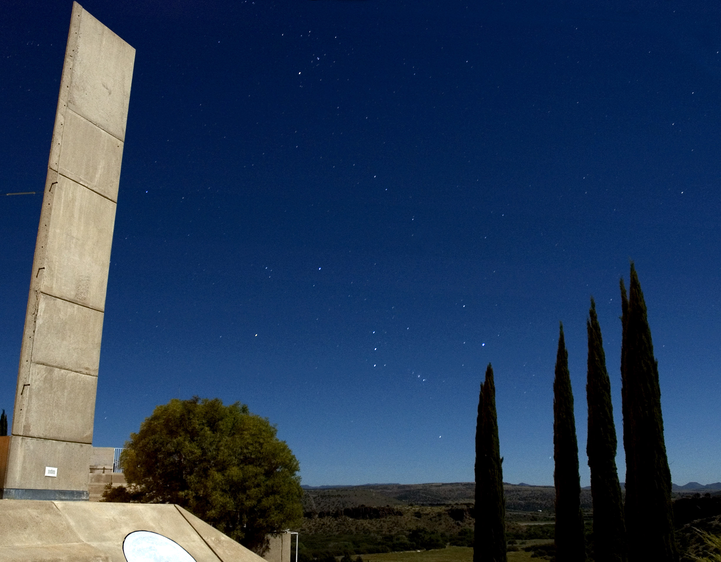 Orion rises in the east between the cyprus trees and the concrete towers of [Arcosanti].